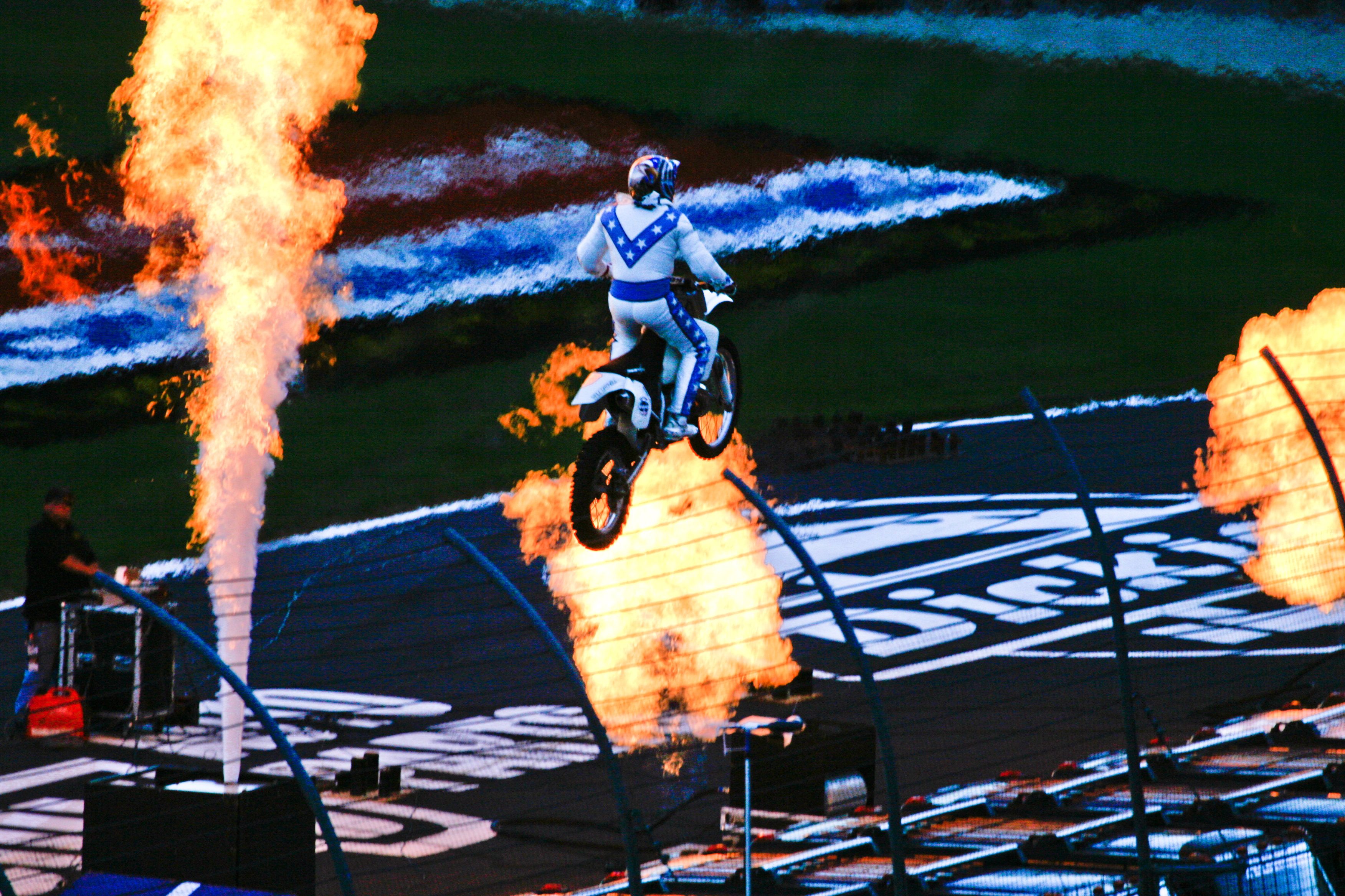 Daredevil Robbie Knievel during his jump over 21 Hummers at Texas Motor Speedway in June 2008